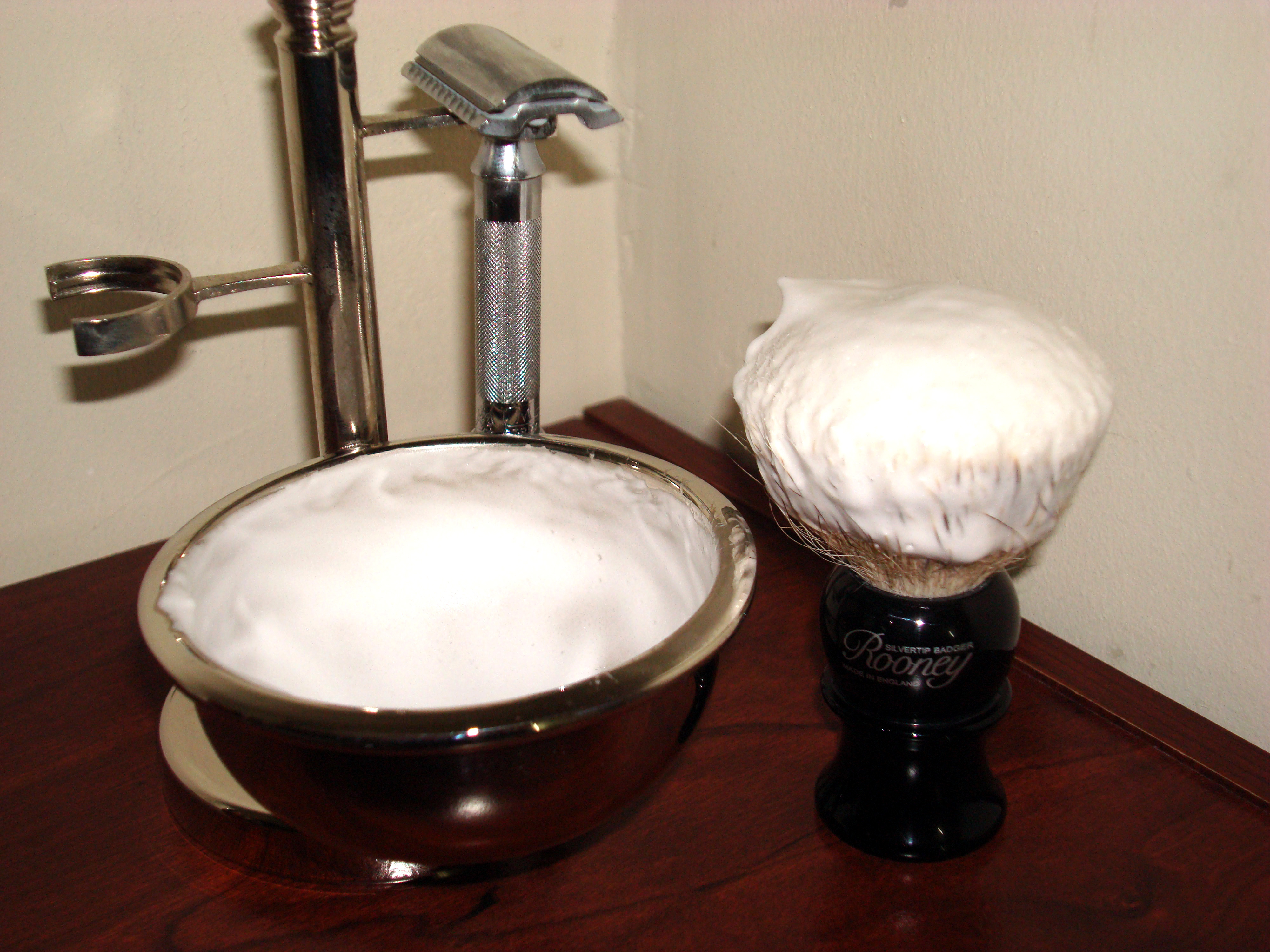 Premium shaving kit.